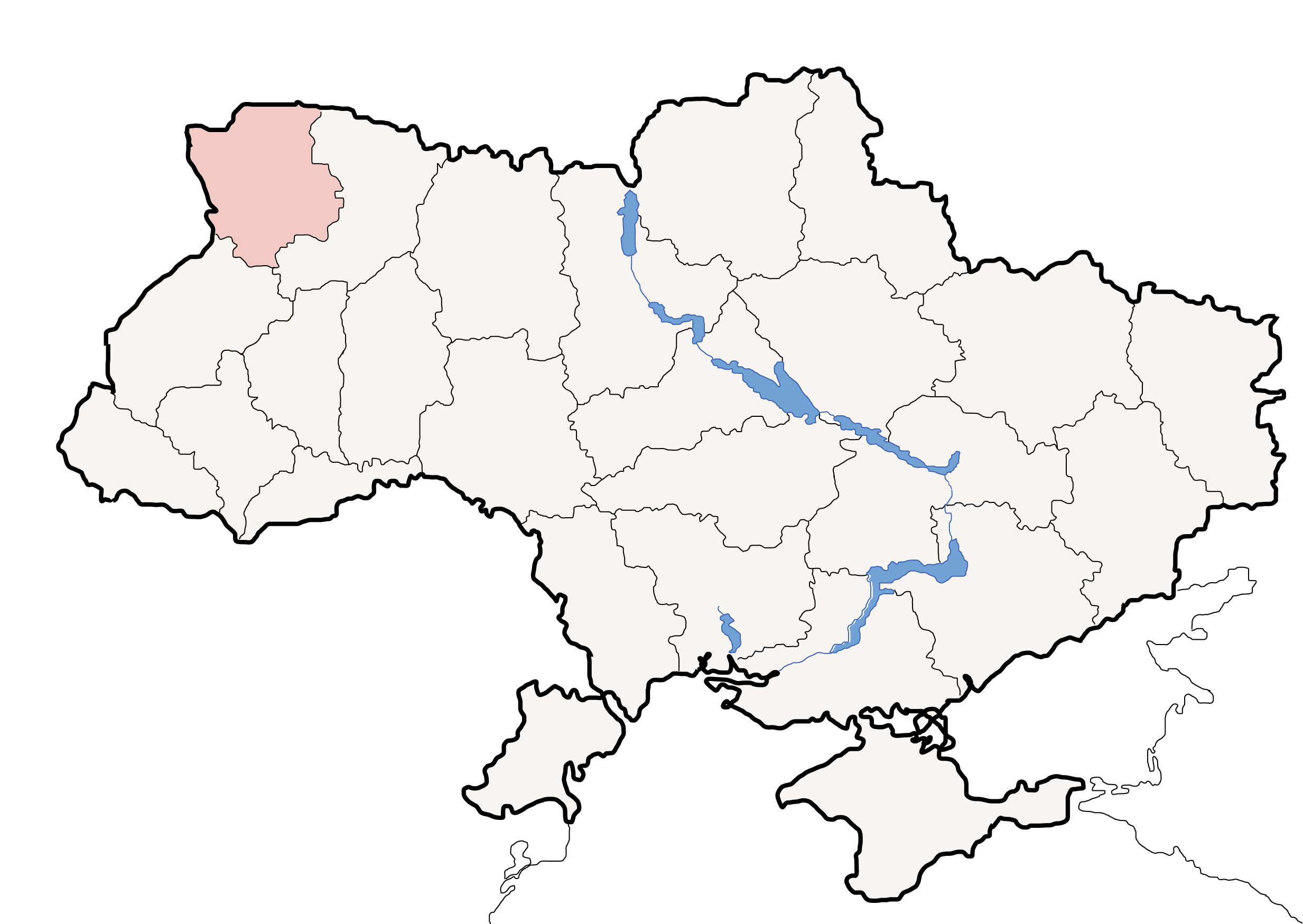 Political map of Ukraine, highlighting Volyn Oblast